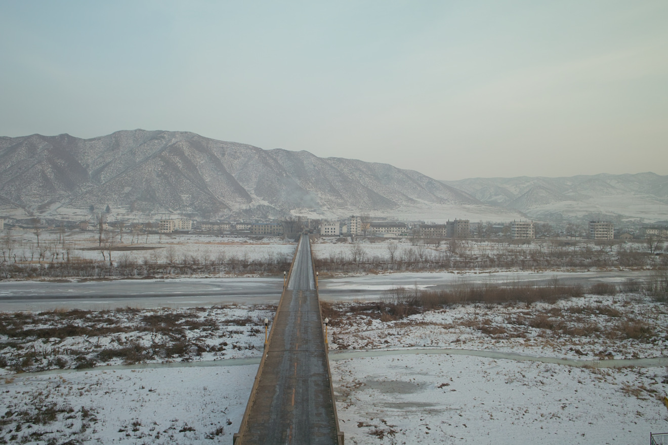 The Tumen River, at the border between North Korea and China, and the bridge which crosses the Tumen River into North Korea. Picture taken from the Chinese side of the Tumen River at Tumen City; the city of Namyang, North Korea is across the river.